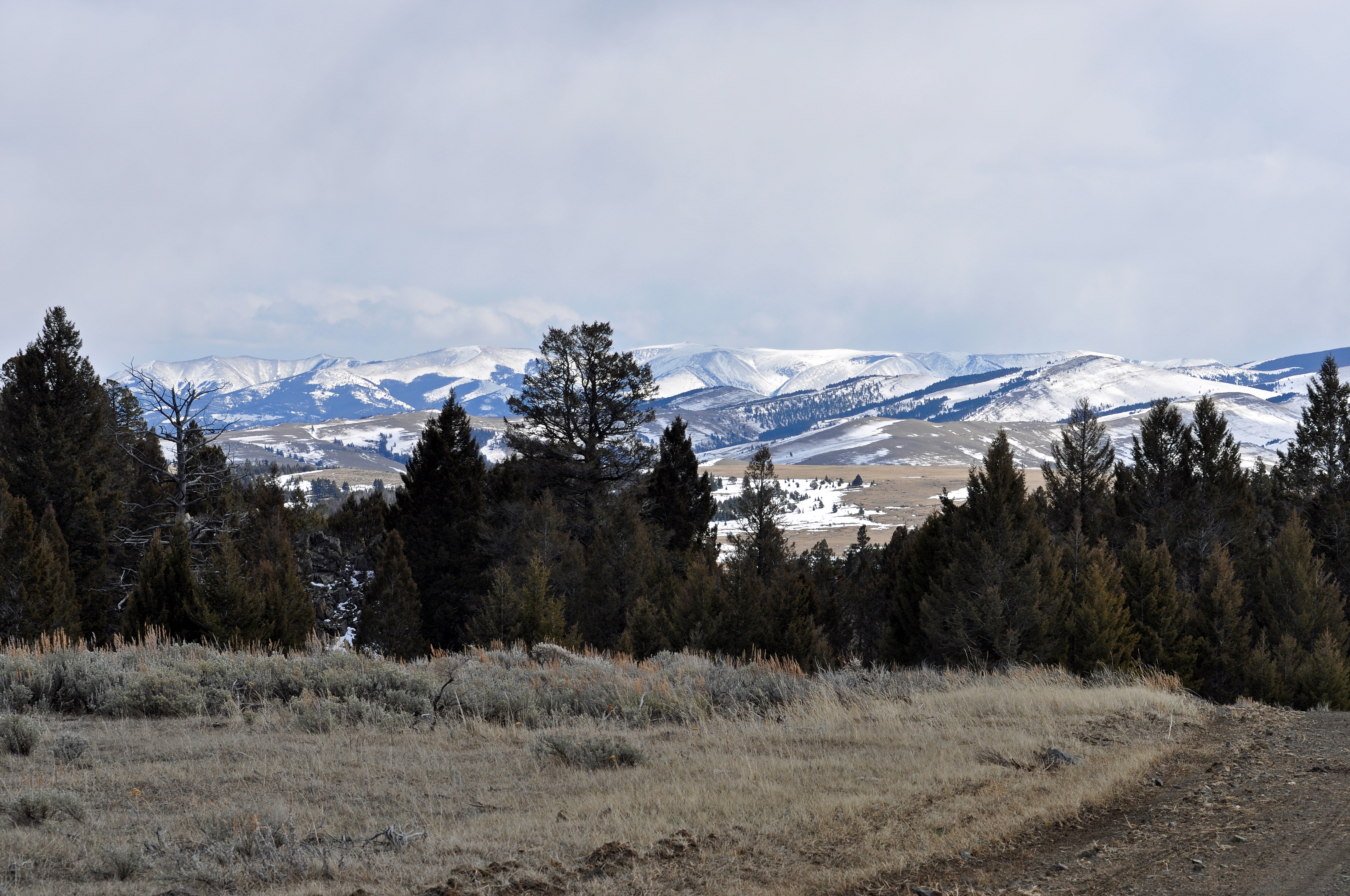 Northern expanse of Crazy Mountains as seen from foothils of Castle Mountains, Meagher County, Montana